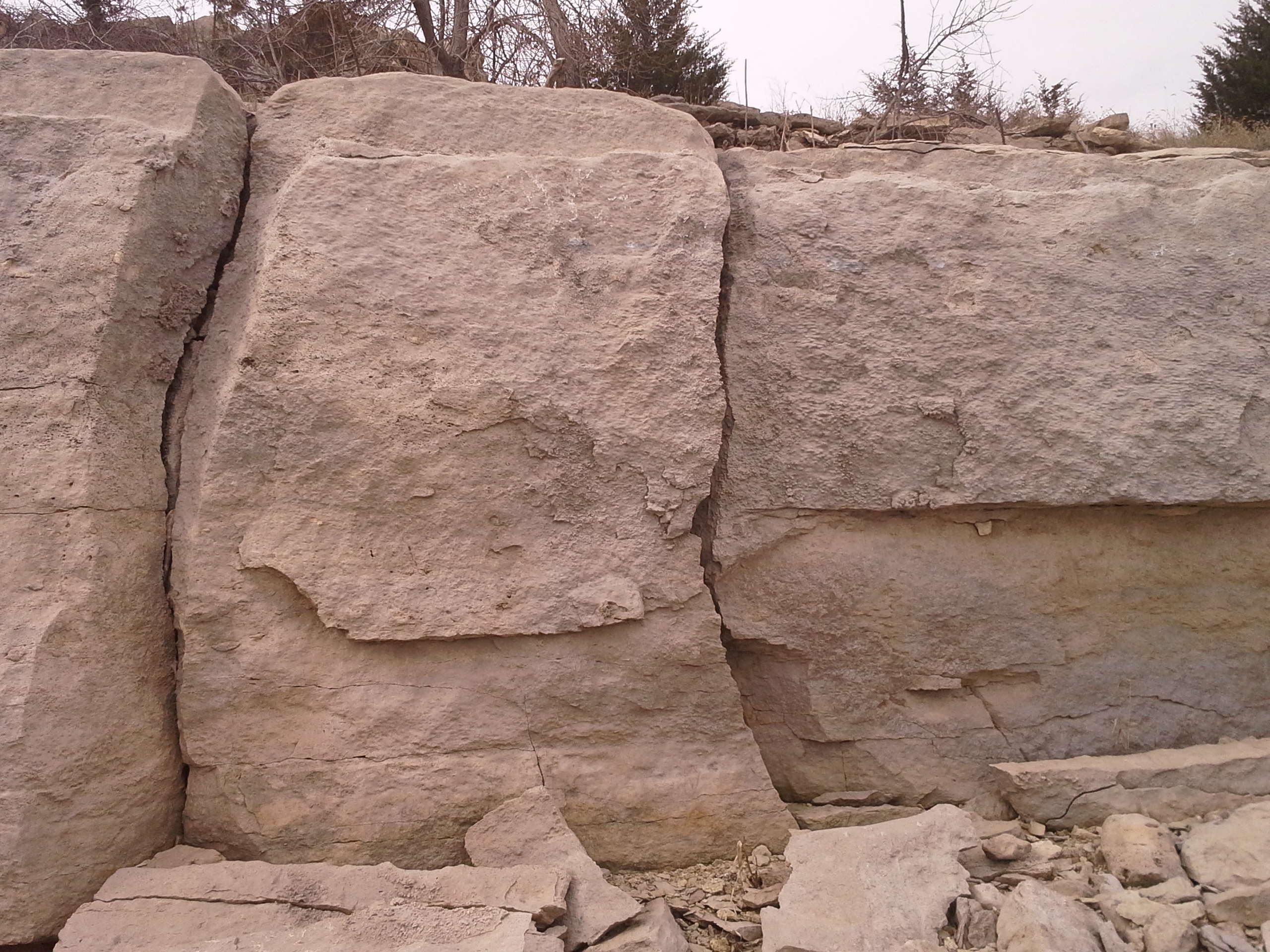 Geologically recent exposure of the Cottonwood Limestone near at entrance to Tuttle Creek Cove at Tuttle Creek Lake. Wave action of the lake has undercut and tumbled away large blocks of the 6 foot thick limestone, completely exposing a lightly weathered face.